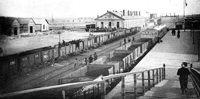 Image from La Chine à terre et en ballon.